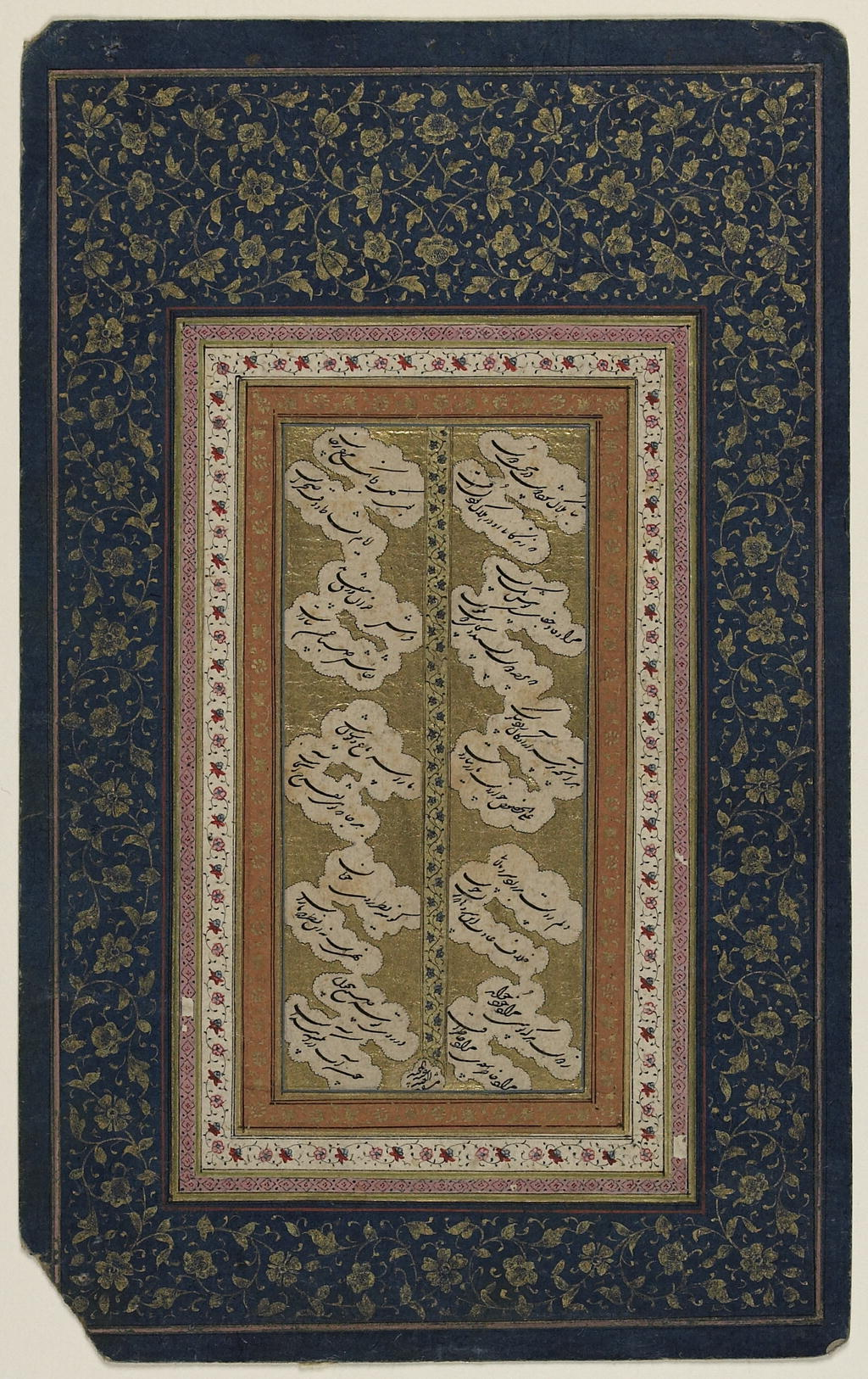 This calligraphic fragment includes a number of lyrical verses, or ghazals, composed by Shaykh Sa'di (d. 691/1292). Many of these verses express the pain at separation from a friend and exhort faithfulness to one's companions. Sa'di's name appears in one of the verses at the very bottom of the right column. The text is executed in black shikastah script and is surrounded by cloud band motifs on a background covered with gold leaf. The central gutter separating the main text panel into two columns is decorated with interlacing blue flower and vine motifs. The text panel is provided with several decorative frames and is pasted onto a blue paper ornamented with gold painted interlacing floral vines. In the lower center of the text panel (that is, at the bottom of the central gutter) appears the calligrapher's signature. It reads: "written by the servant 'Abd al-Majid" (mashaqahu al-'abd 'Abd al-Majid). A note on the fragment's verso, not visible in this image, also states: "'Abd al-Majid, the inventor of shikasta, 17th century." This is certainly Darvish 'Abd al-Majid al-Taliqani (d. 1185/1674-5), who resided in Isfahan, the capital city of Persia (Iran) during the 17th century. He was a master calligrapher in nasta'liq and is credited with the invention of shikastah, a very fluid and literally "broken" script derivative of nasta'liq. He was a poet in his own right and signed his poems with the pen-name (takhallus) "The Extinguished One," or Khamush (Tavoosi 1987, 34). A number of works signed by 'Abd al-Majid in Iranian collections bear similarities to the fragment in the Library of Congress. These typically are executed in black shikastah or shikastah- nasta'liq and are framed by gold cloud bands (see Tavoosi 1987: 35, 37, 63, 123, 151, 181, and 183).